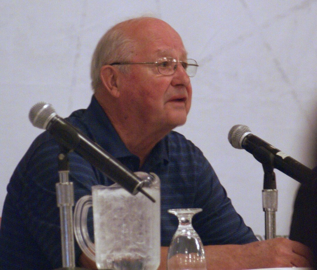 "Between the Pipes" Panel with Corey Crawford, Tony Esposito & Glenn Hall